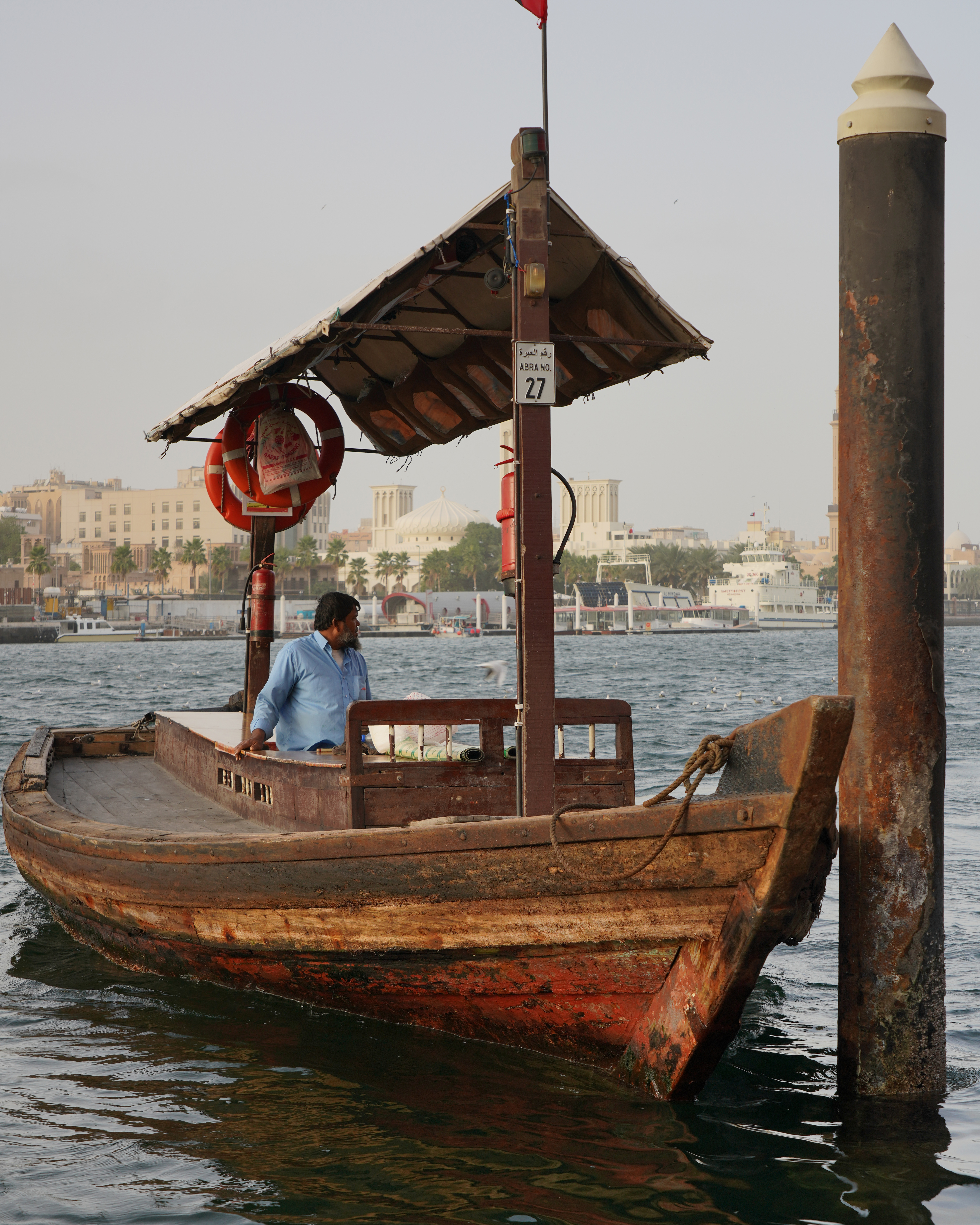 Abra on Dubai Creek in Dubai / United Arab Emirates